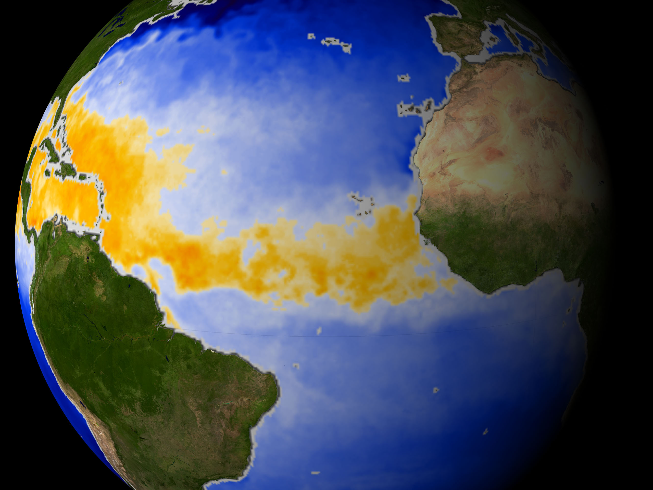 Hurricane Alley from NASA's website